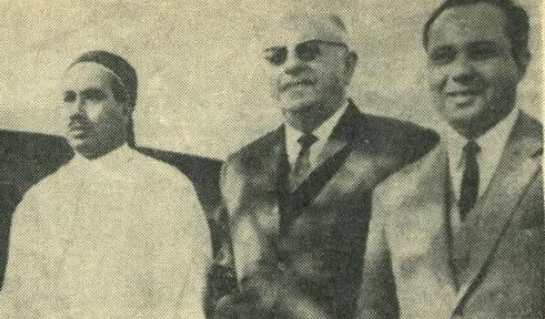 From left to right, CP Hassan of Libya, President Sunay of Turkey, PM Abdul Hamid Al Bakkoush of Libya, on Sunay's visit to Libya.